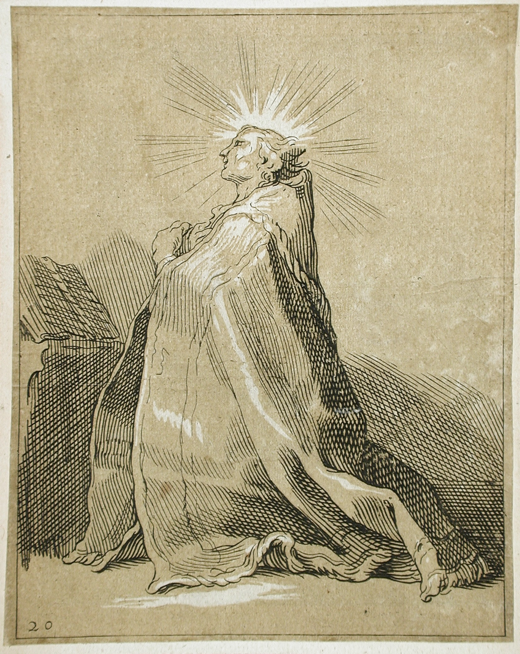 Holland, before 1652 Book: Het Konstryk Tekenboek van Abraham Bloemaert, plate 20 Prints; woodcuts Etching and woodcut Gift of Connie Harris (M.88.187) Prints and Drawings